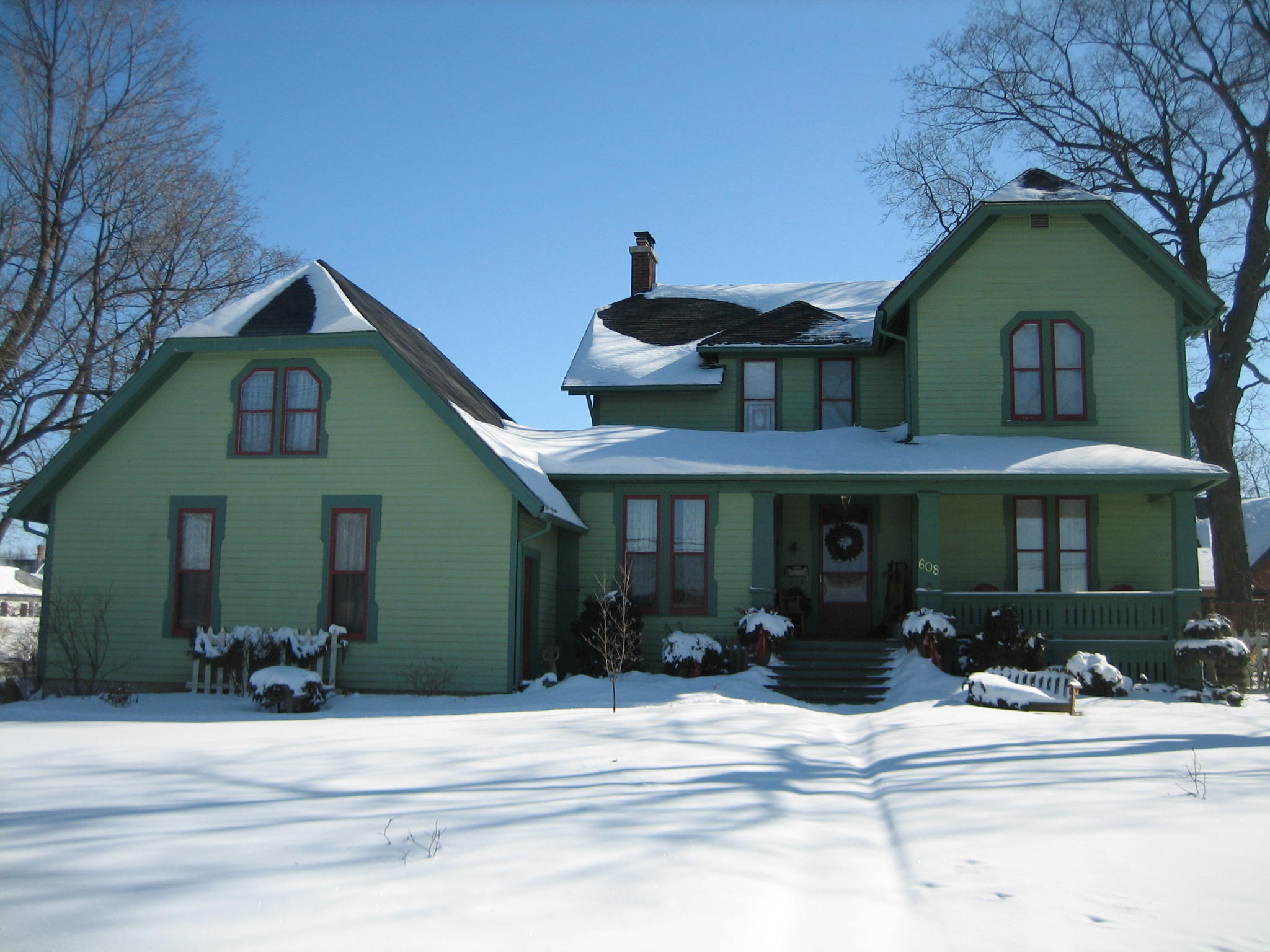 608 Somonauk St, Charles Kellum House, Sycamore, Illinois. Sycamore Historic District, National Register of Historic Places.